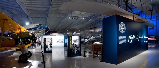 View from the entrance to the main hangar as visitors would first see it - August 2012